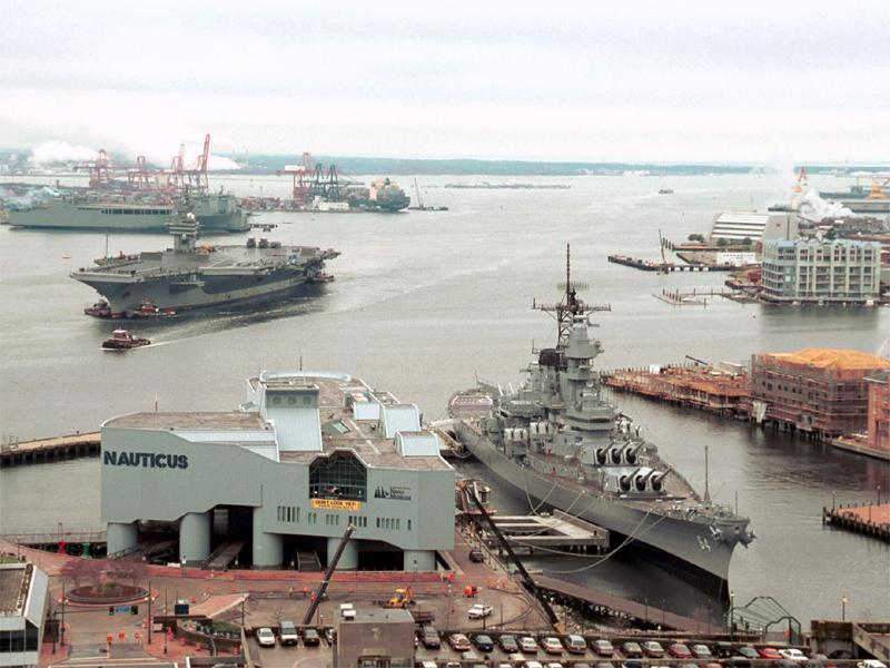 Although there are no active battleships in any navy as of 1992, the United States Navy still maintained for a decade and a half two mothballed battleships—Iowa and Wisconsin—(the latter berthed at the Nauticus National Maritime Center in Norfolk, VA) and could recommission one or both of them if needed. Since the 1950s the United States battle doctrine has called for air superiority, which clearly favors the aircraft carrier, but other weapons such as guided missile ships and destroyers also play a significant role. In May, 2006, Wisconsin and Iowa were stricken from the Naval Vessels Registar and placed on donation hold for use as museum ships.